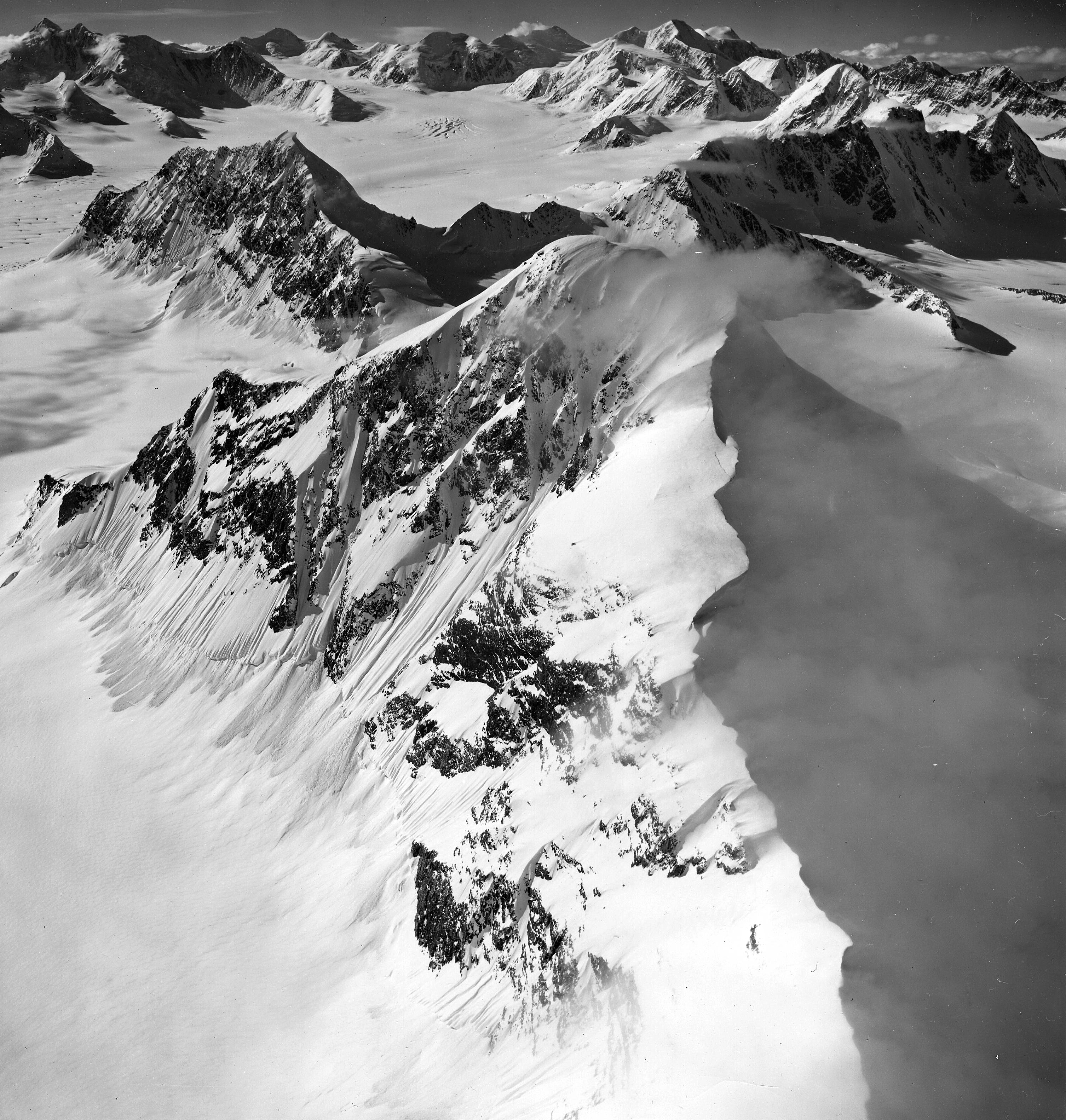 Aerial view of Tazlina Tower from the east (looking west).